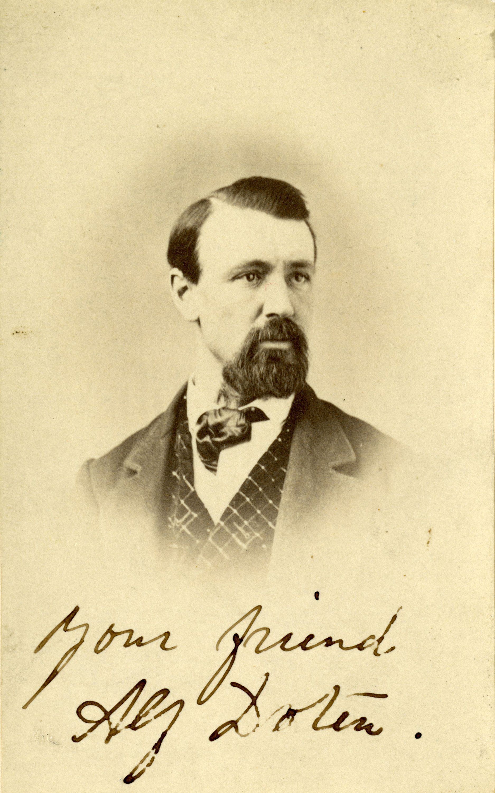 Depicted person: Alfred Doten – 1829-1903 , journalist and diarist